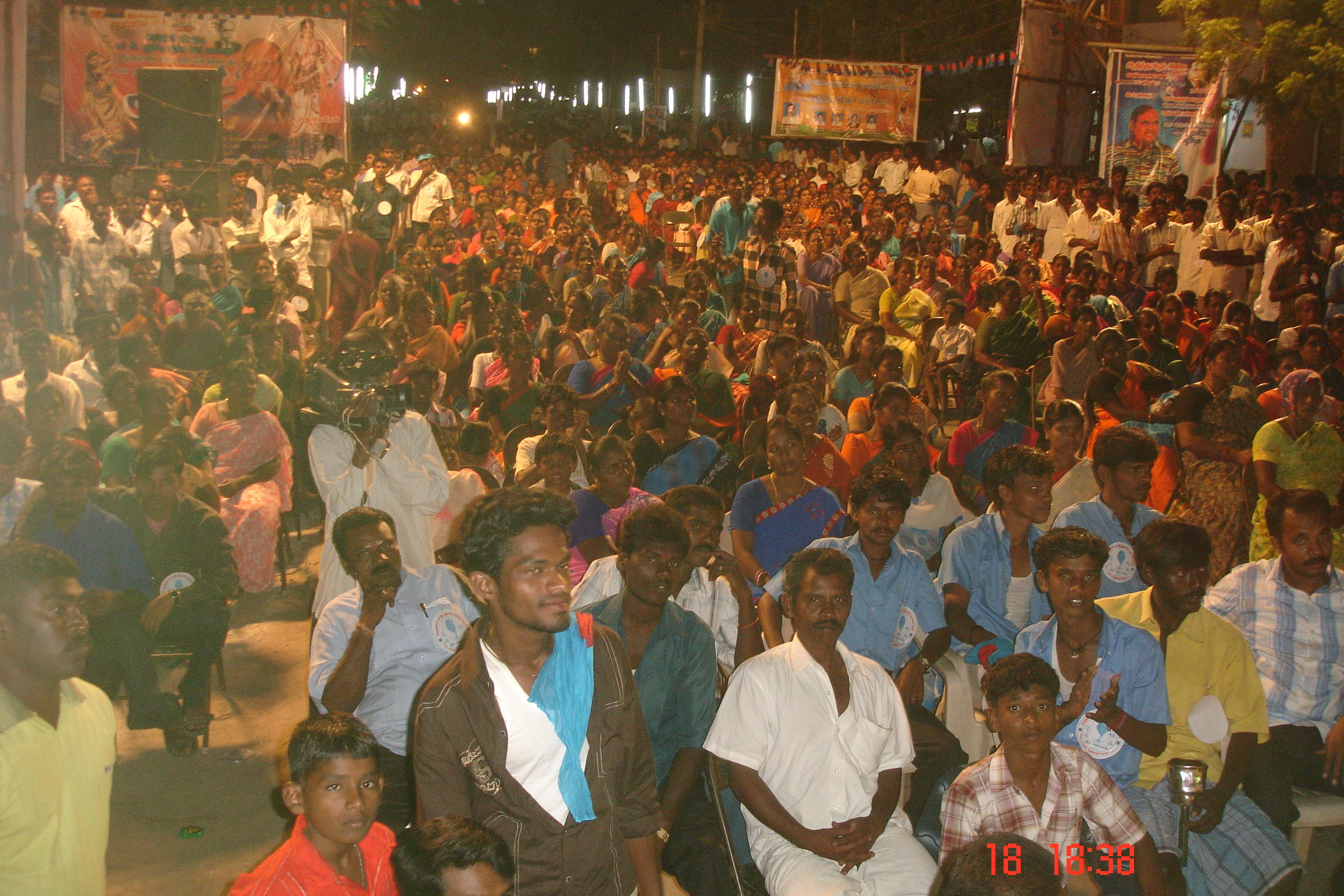 ATP conference